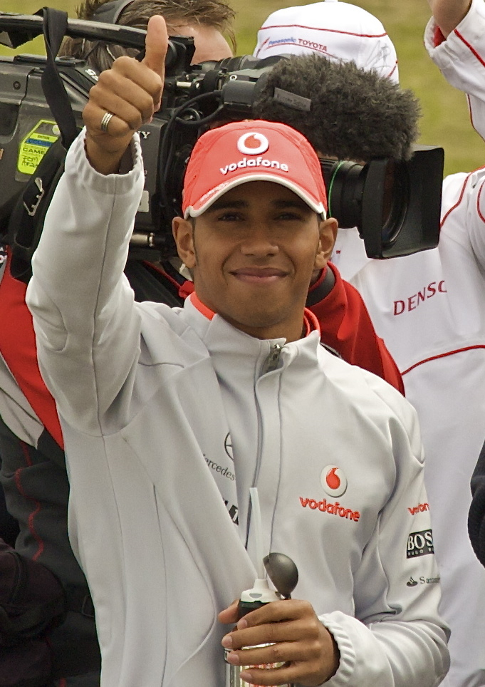 Lewis Hamilton at the 2009 British Grand Prix, Silverstone, UK.